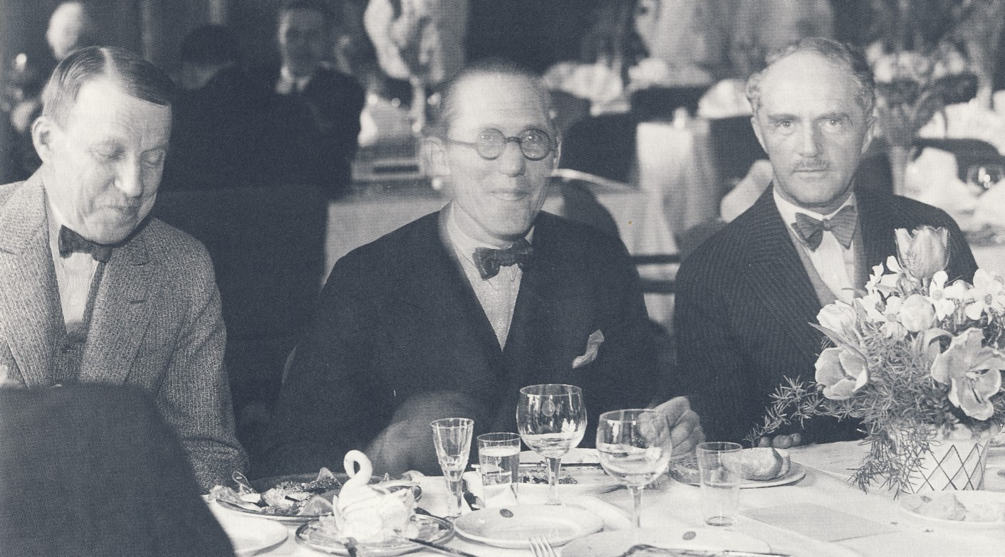 Architects (from left): Erik Lallerstedt, Le Corbusier and Ivar Tengbom 1933 in Stockholm